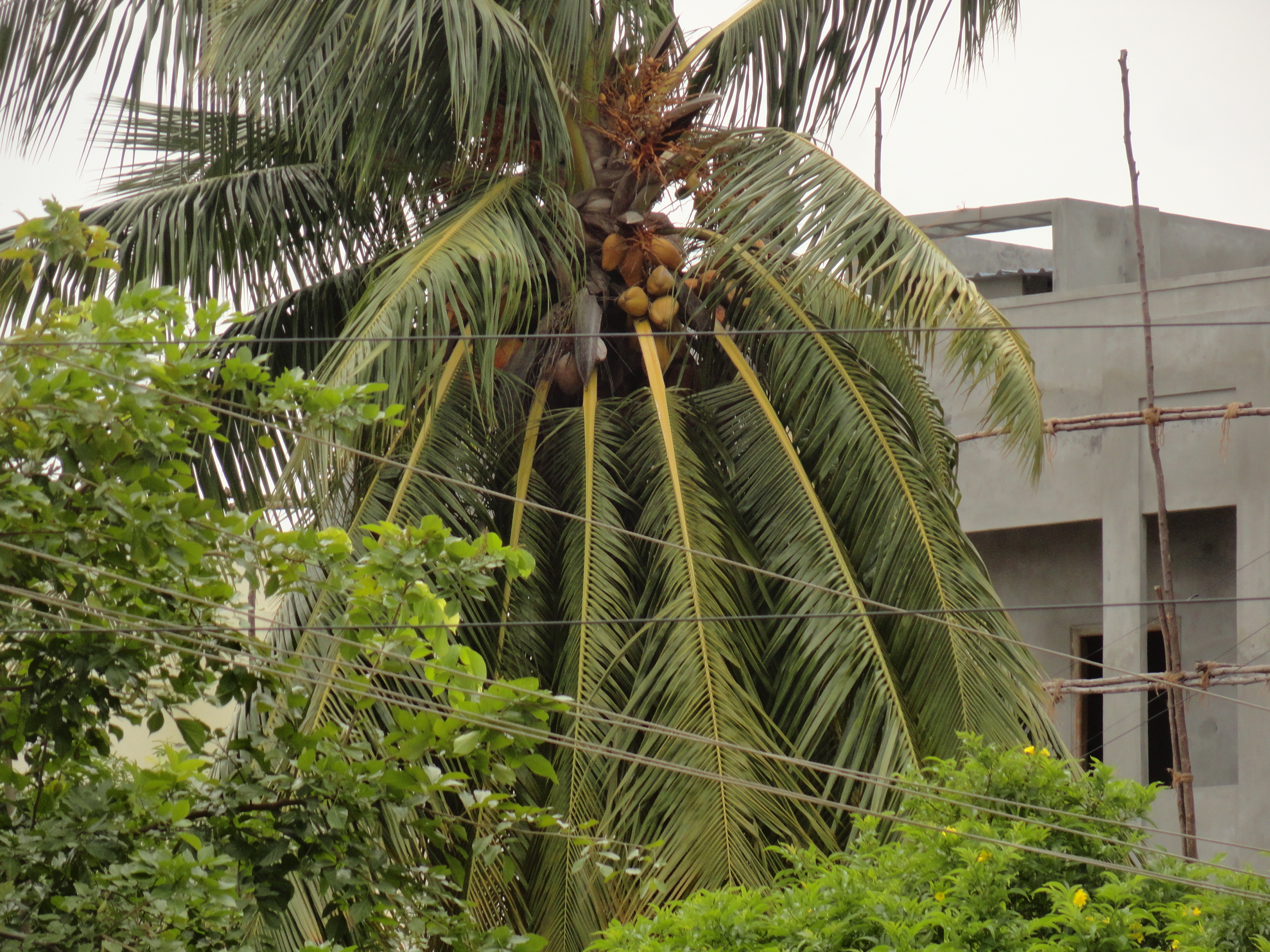 కొబ్బరి చెట్టు